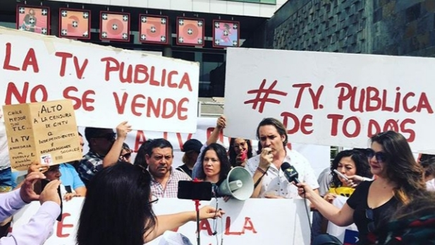 Protest outside TVN headquarters in Santiago. The demonstrators carried banners with messages against a privatisation of the public broadcaster and criticise the news coverage of the 2019-20 protests in Chile.